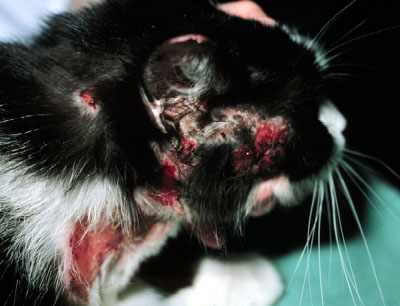 feline head pruritus secondary to food allergy